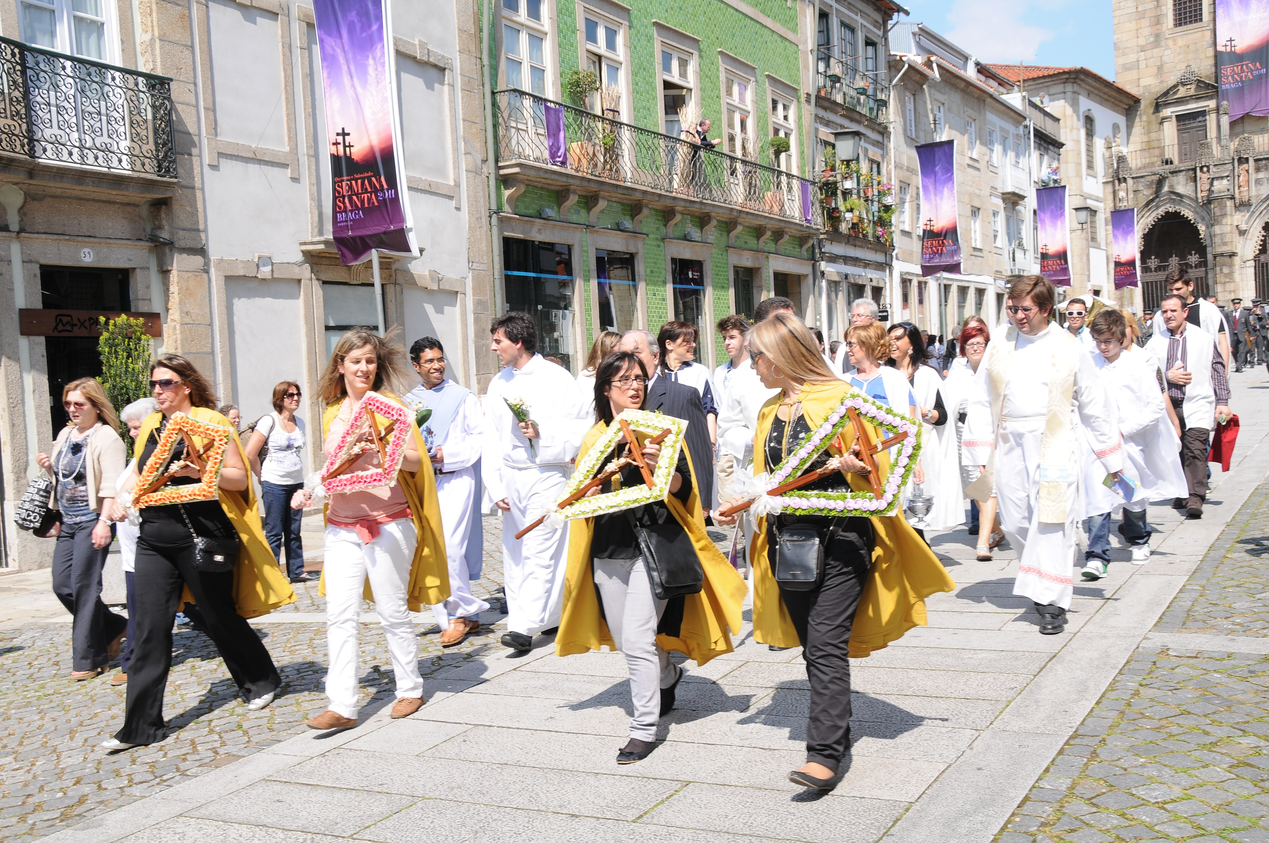 Easter Monday at Boavista Street, in Braga, Portugal.